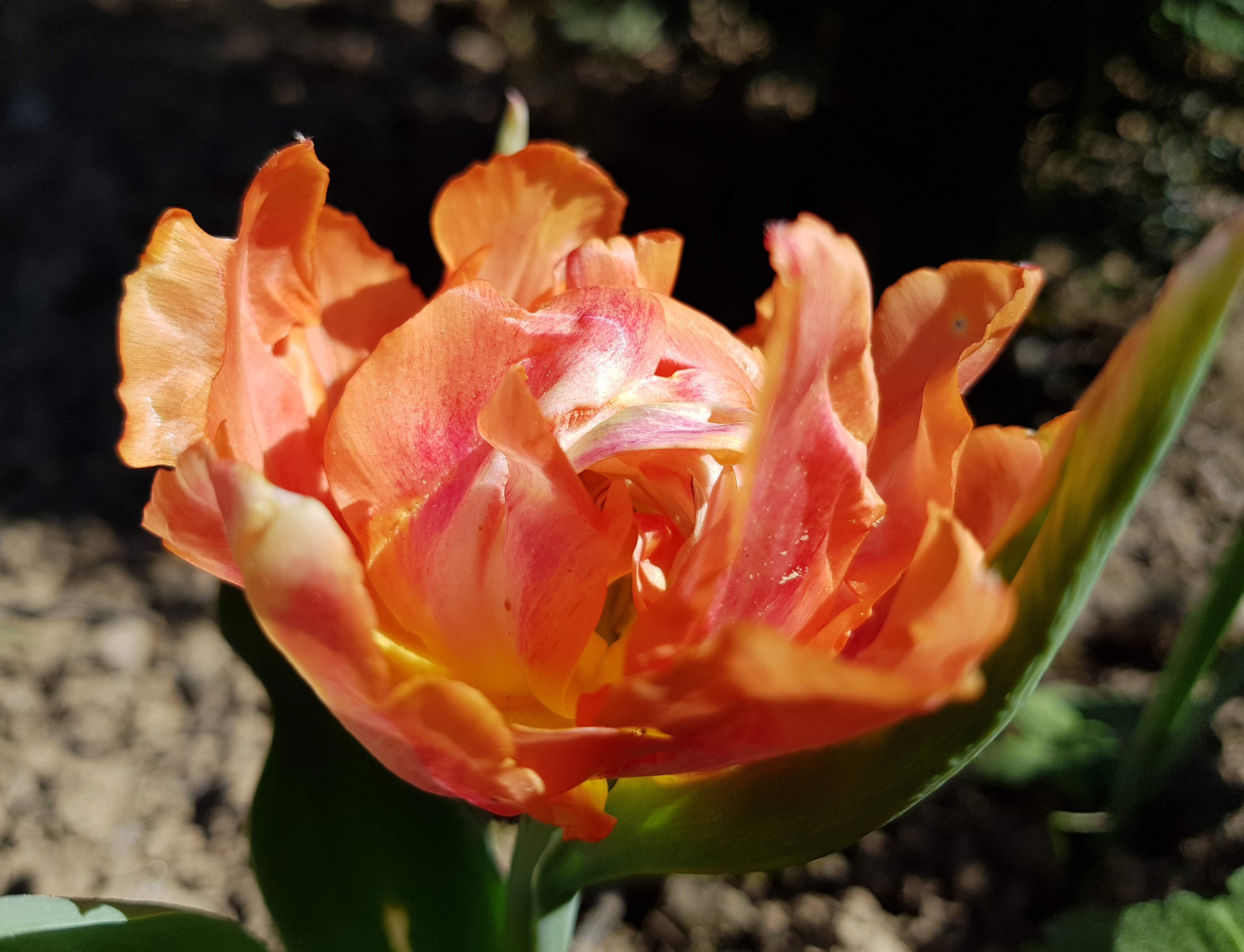 Tulpe "Willem van Oranje"